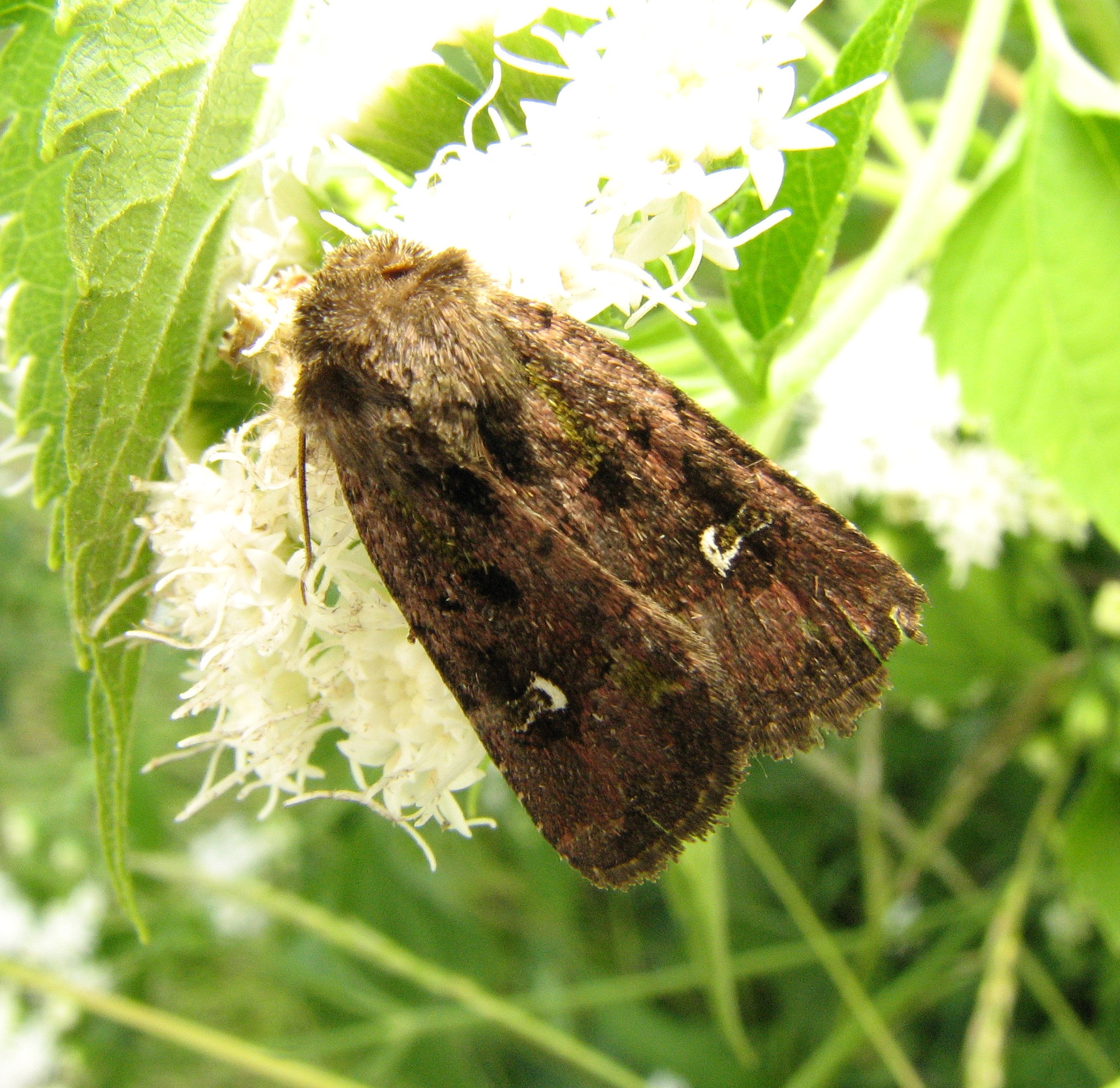 Lacinipolia renigera, Bristly Cutworm. More details: Pennypack Restoration Trust, Montgomery County, Pennsylvania, USA. Latitude: 40.1436/ Longitude: -75.0845.